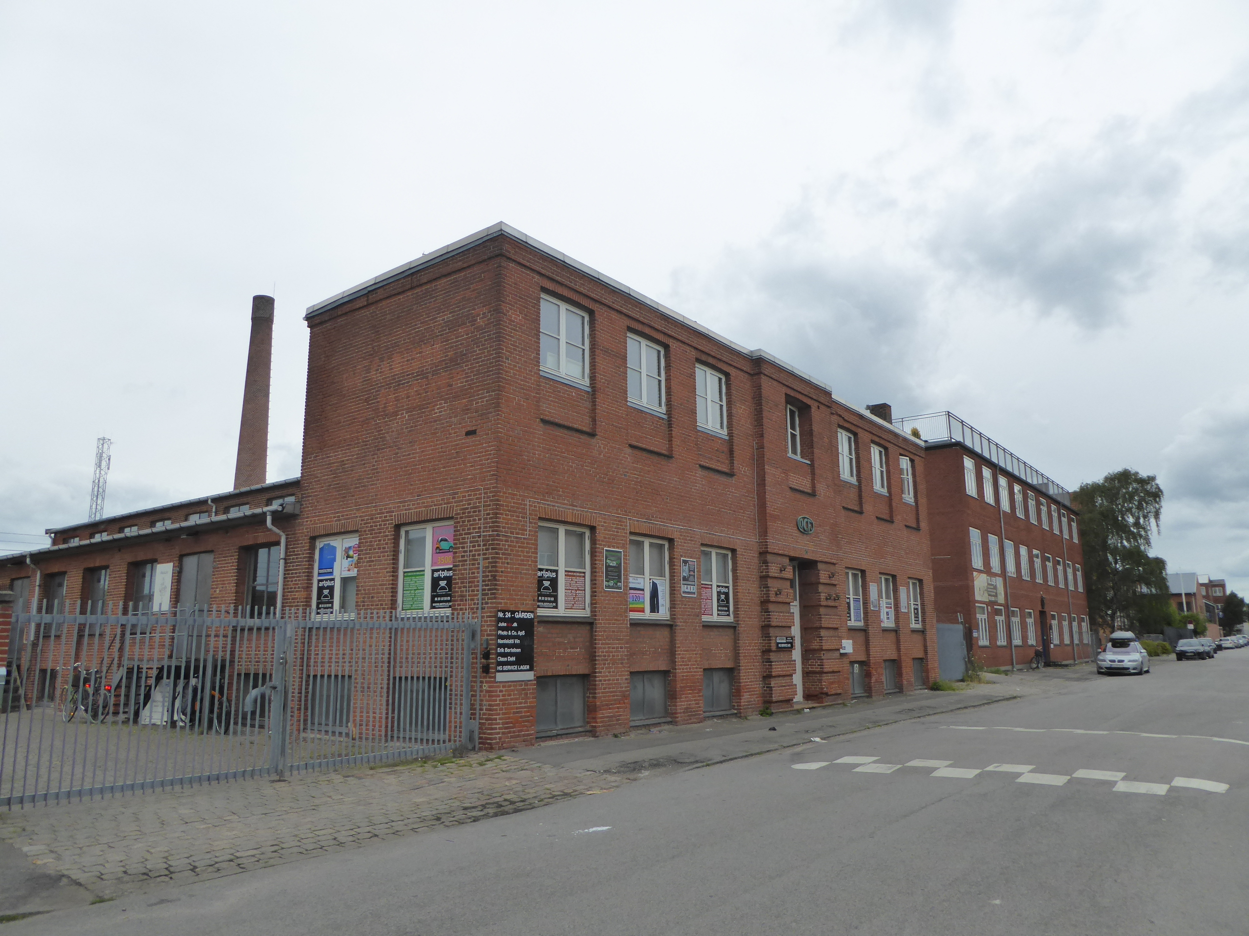 Former factory of De Carlske Fabriker at Høffdingsvej in Valby in Copenhagen.